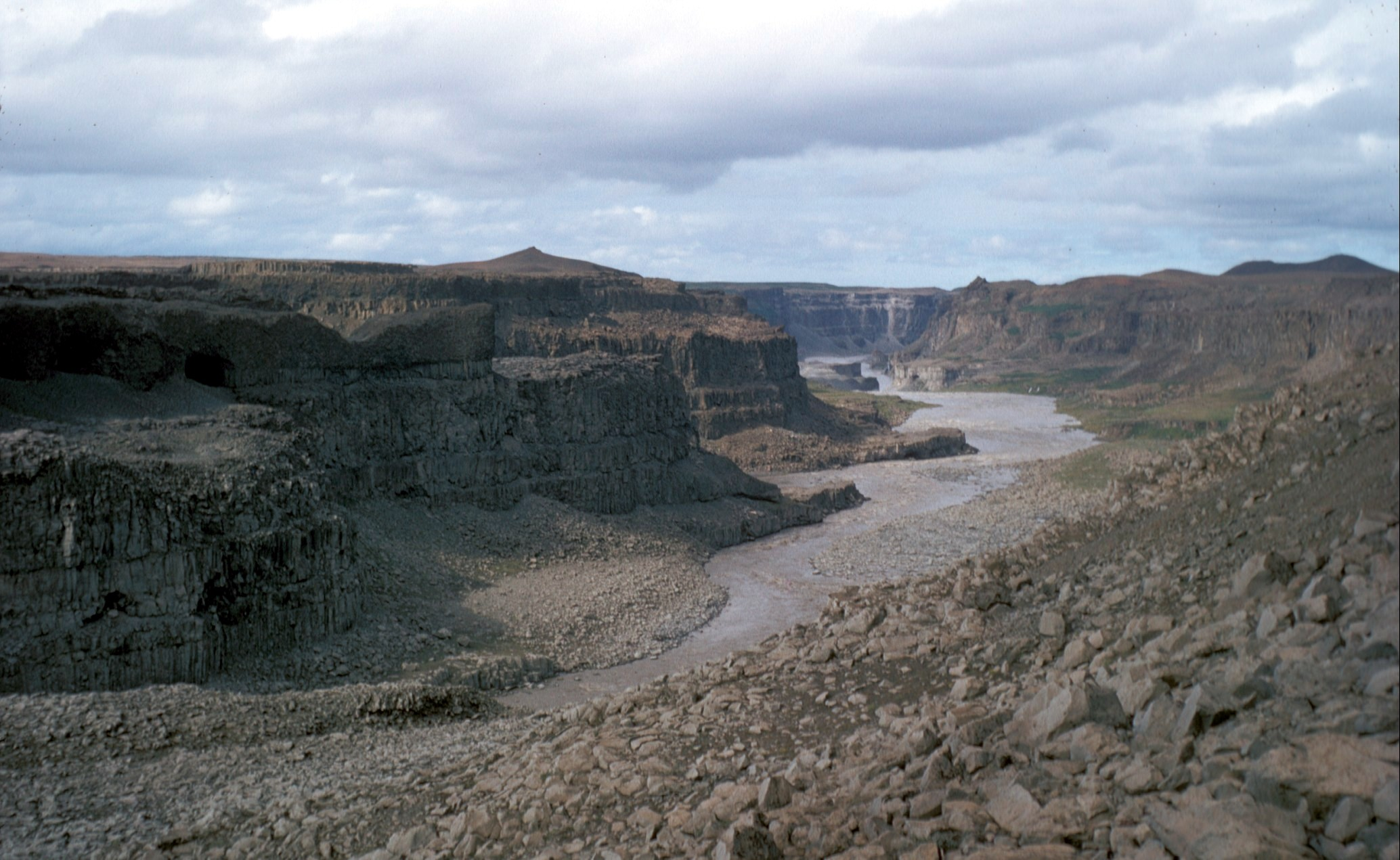 River Jökulsá á Fjöllum downstream from Dettifoss in Iceland on 31 Jul 1972. Picture taken and uploaded by Roger McLassus.